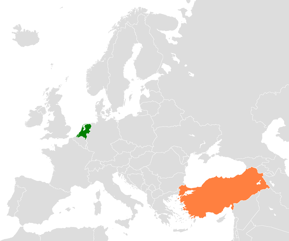 Location of the Netherlands and Turkey.